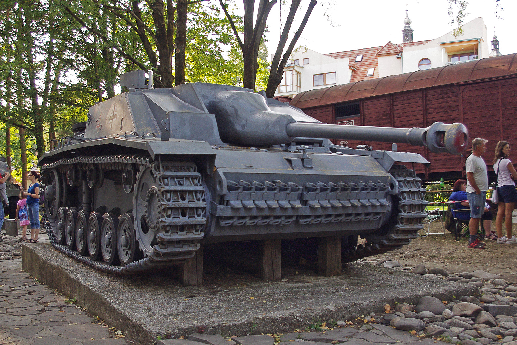 Stug III Ausf. G in the Museum of Slovak National Uprising in Banská Bystrica.